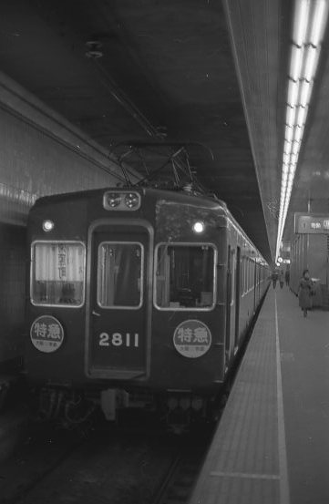 Hankyu 2800 Electric cars.